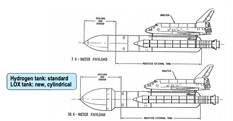 Large Low Density Payloads Could Be Carried In Extensions To The External Tank.